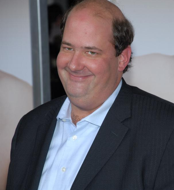 Brian Baumgartner at Walk Hard: The Dewey Cox Story premiere